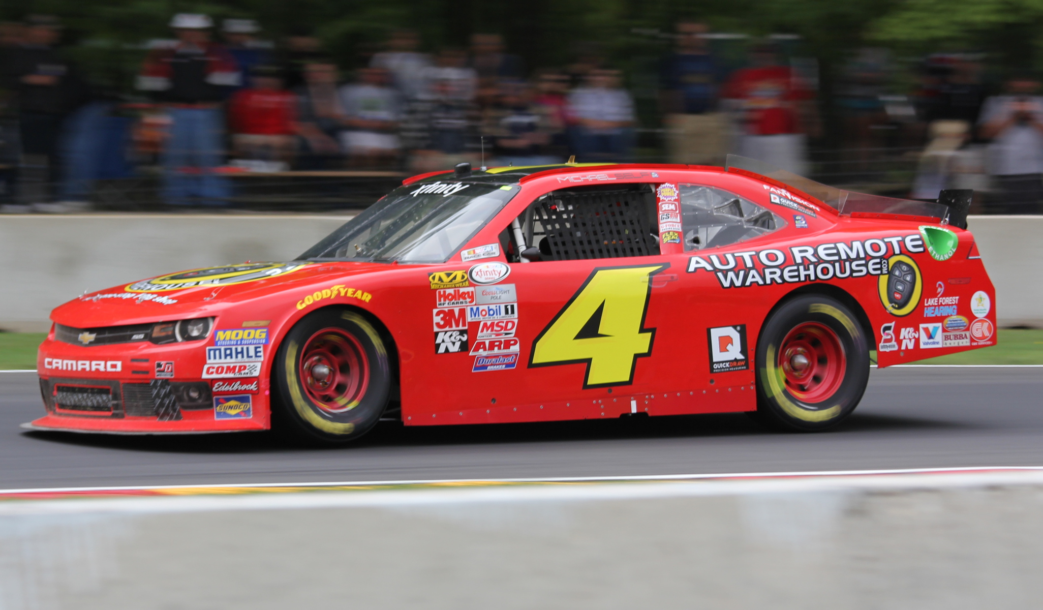 The NASCAR Xfinity Series car of Michael Self turning left in Turn 6 at Road America.